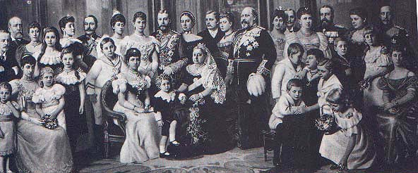 Victoria of England and family